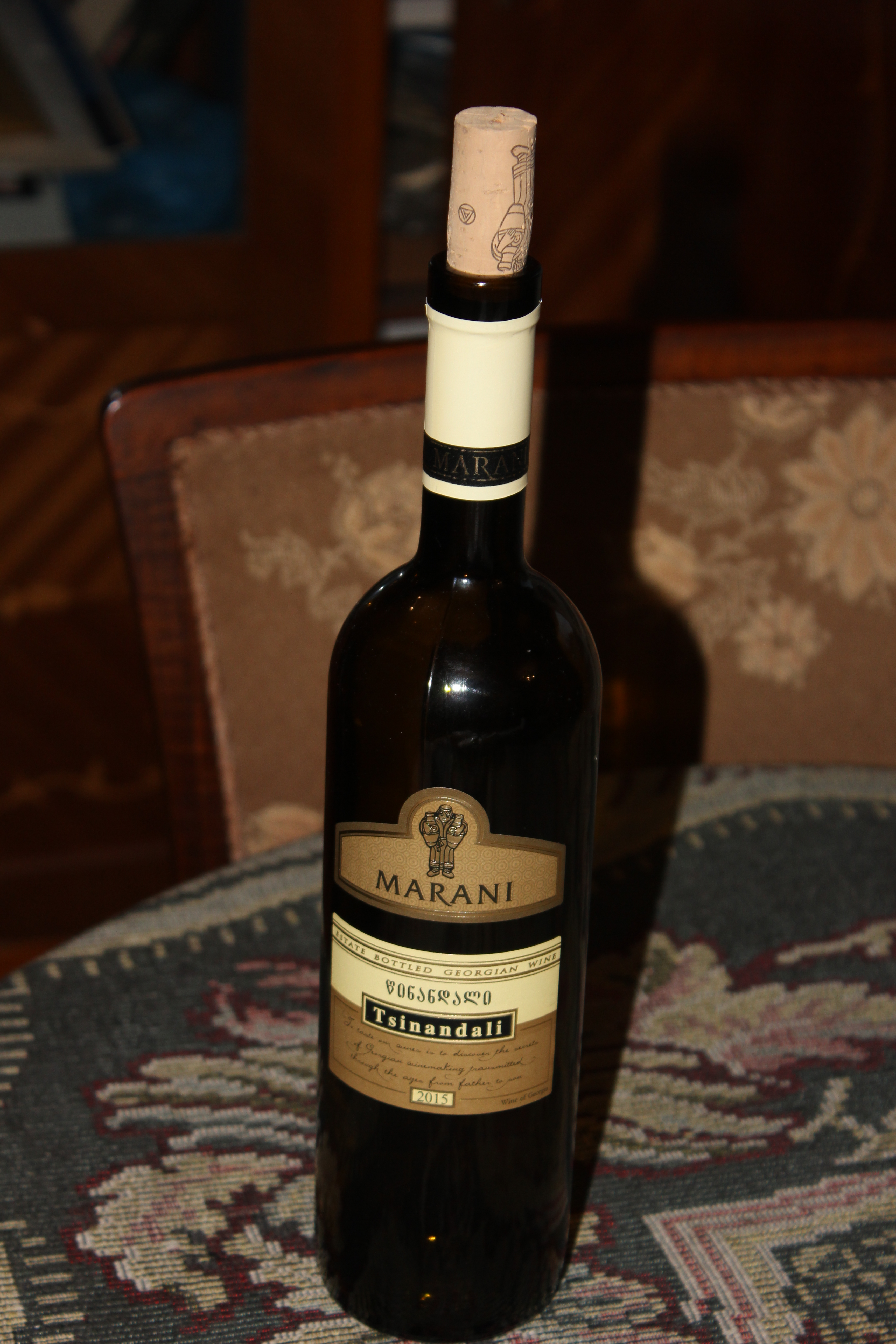 Georgian wine Tsinandali